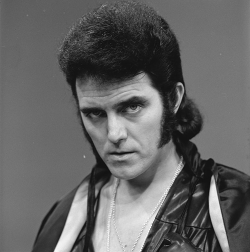 Alvin Stardust in AVRO's TopPop (Dutch television show) in 1974